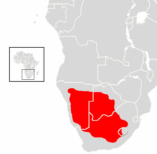 Cape Ground Squirrel (Xerus inauris), range map, depending on the range map at IUCN red list